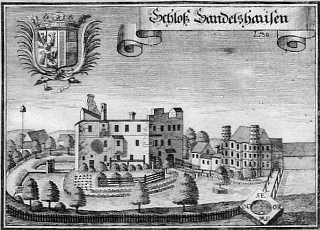 Castle Sandelzhausen made by Michael Wening in Topographia Bavariae c. 1700